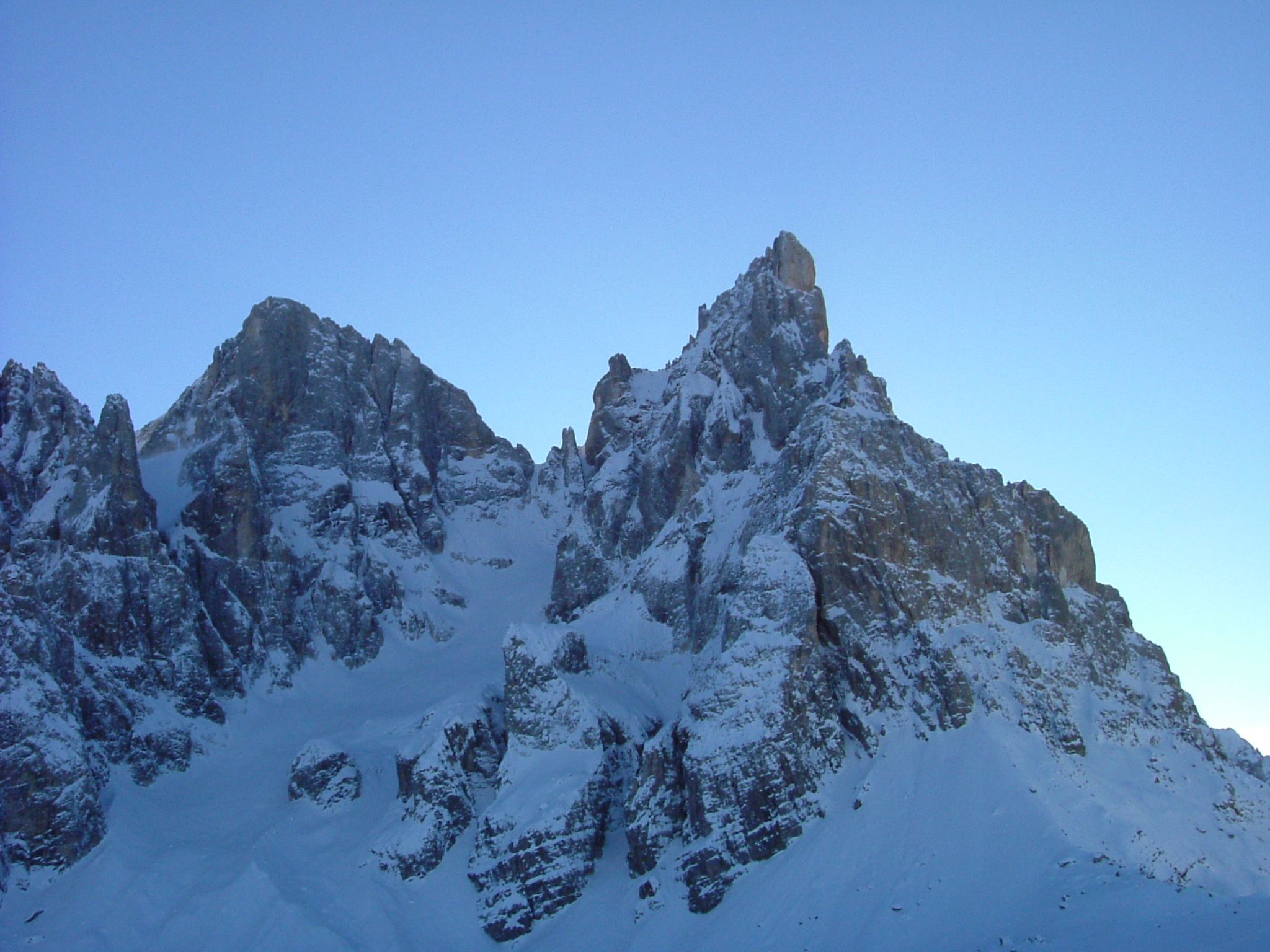 Picture copied from Italian Wikipedia Immagine:CimonDellaPalaEVezzana.JPG. Vezzana